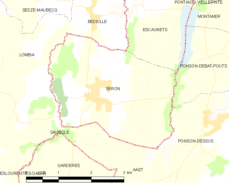 Map of French municipality